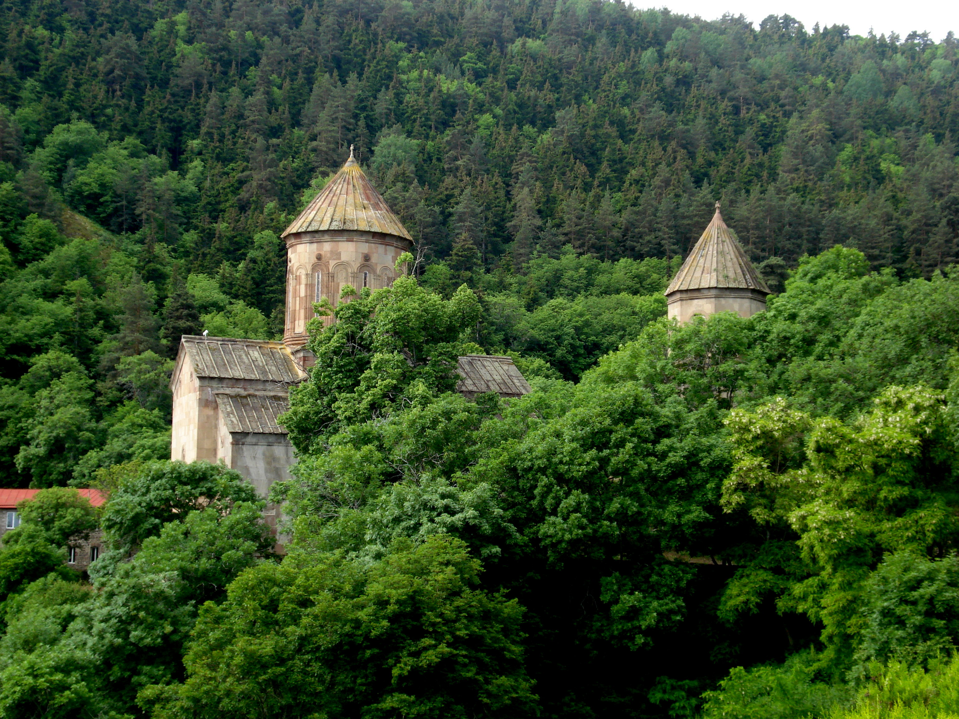 10th century Sapara Monastery - St. Saba church